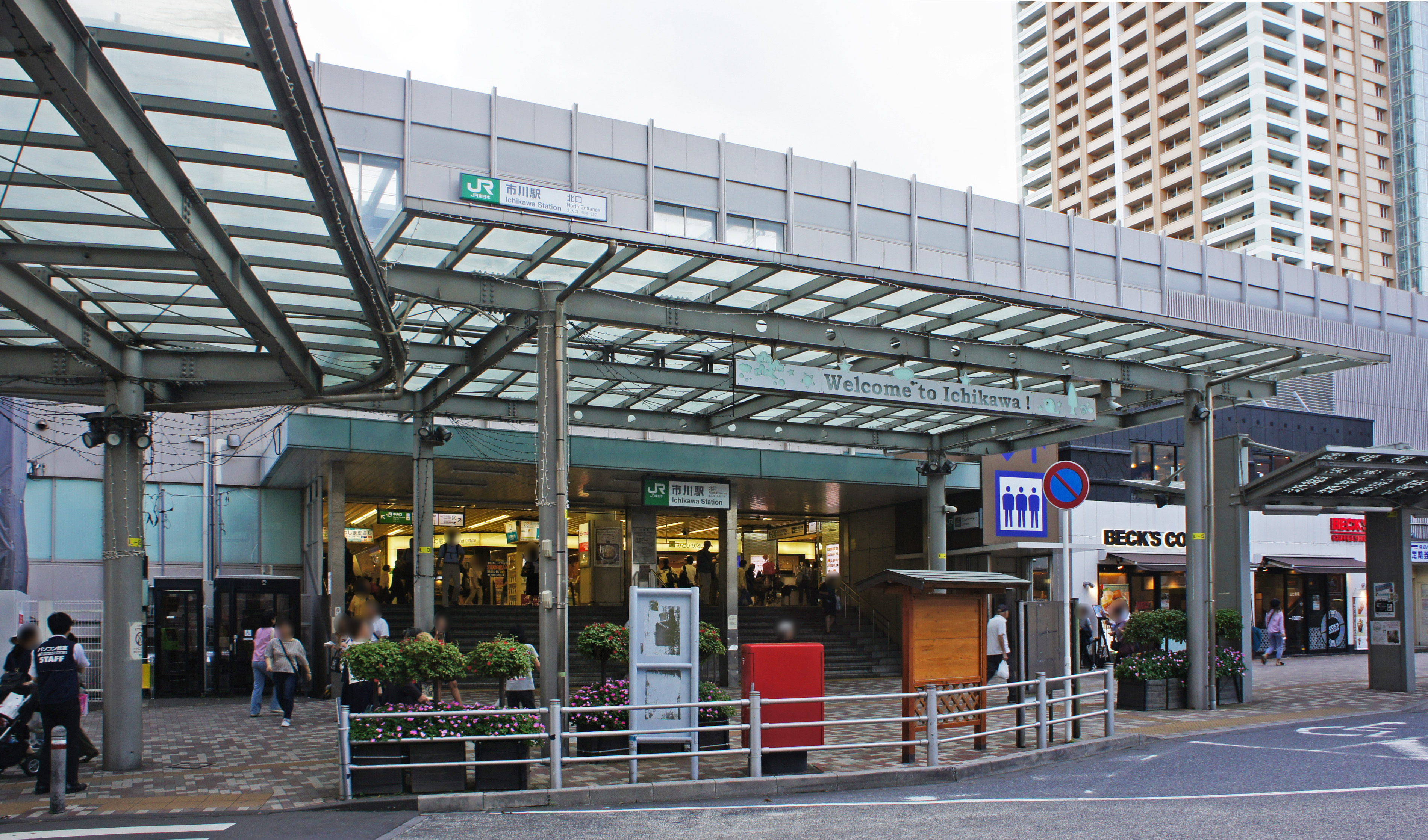 North Exit of JR Sobu-Main-Line Ichikawa Station